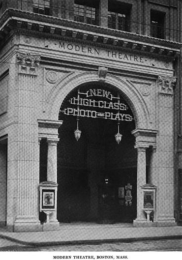 Modern Theatre, Washington St., in Boston, designed by Clarence H. Blackall.